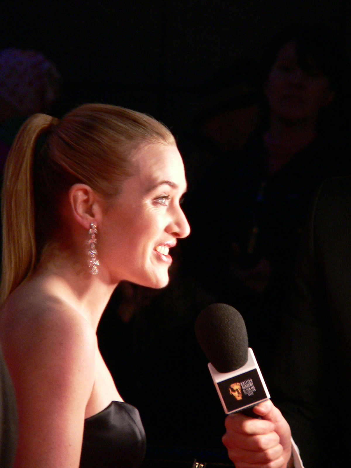 Actress Kate Winslet in BAFTA Awards 2007.